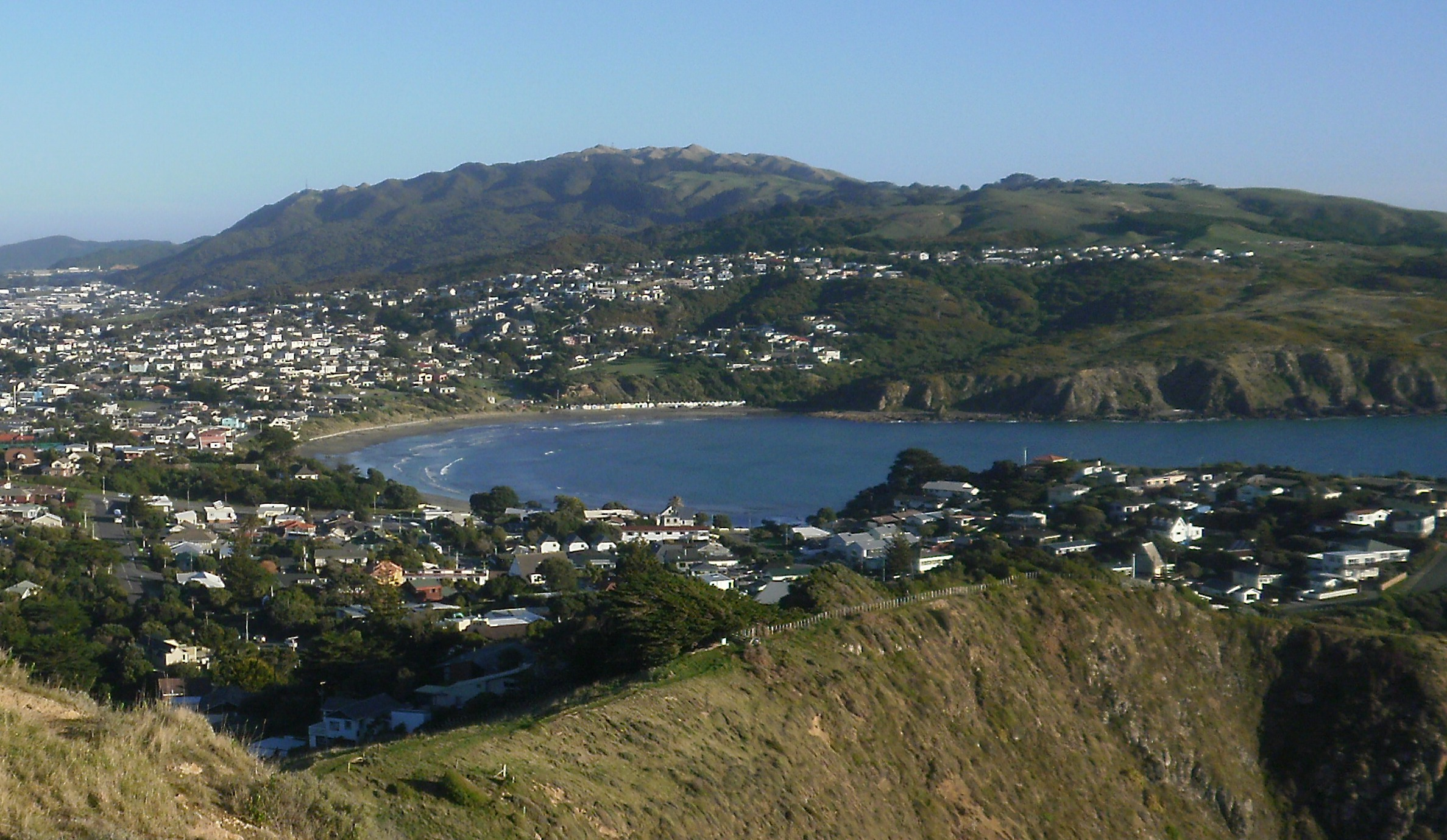 Titahi Bay, Wellington, New Zealand. Photo taken from the north in Whitireia Park.